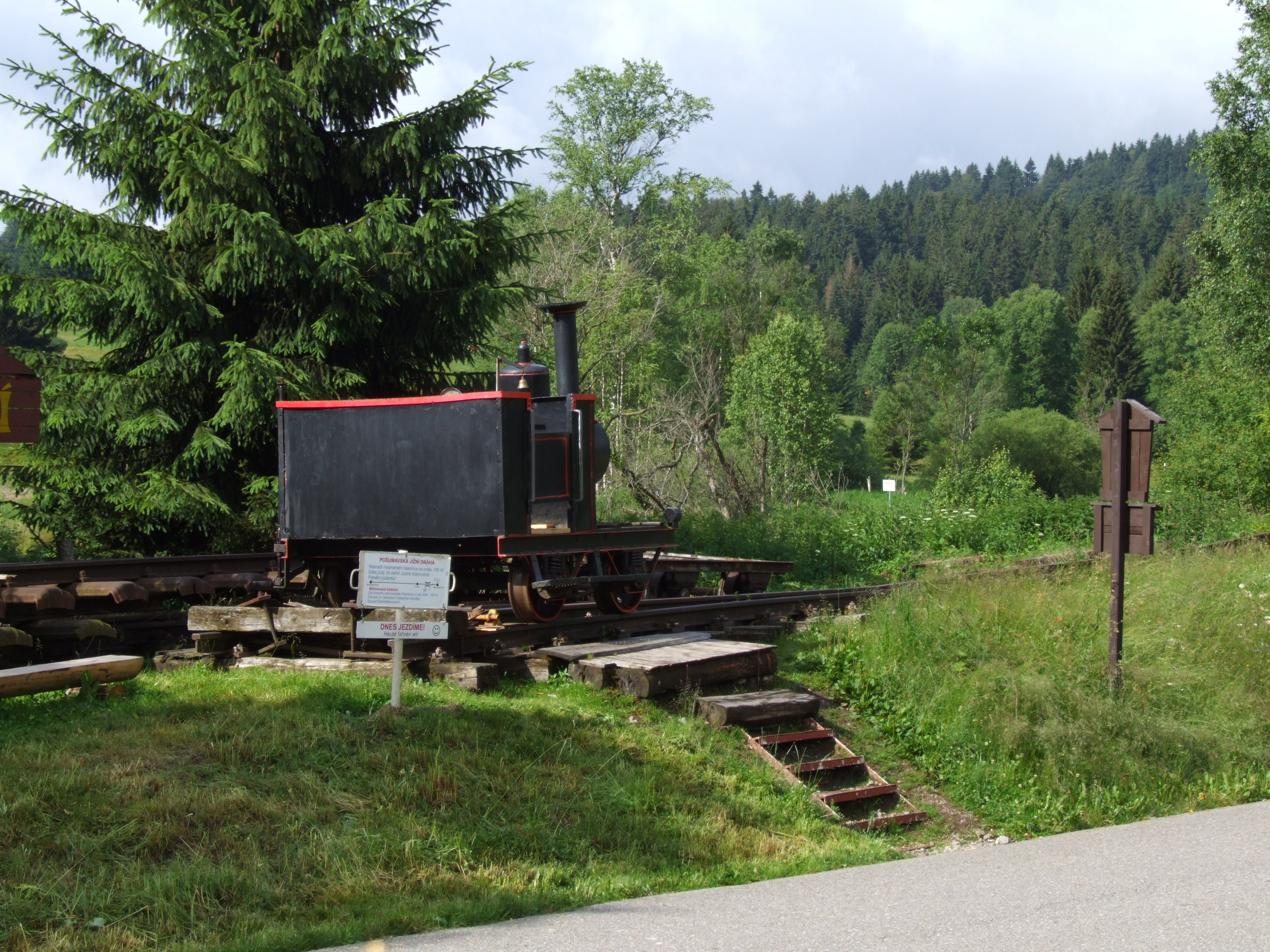 Nové Údolí, Czech Republic. Pošumavská jížní dráha - shortest international railway in the world (Czech Republic - Germany - 105 m)